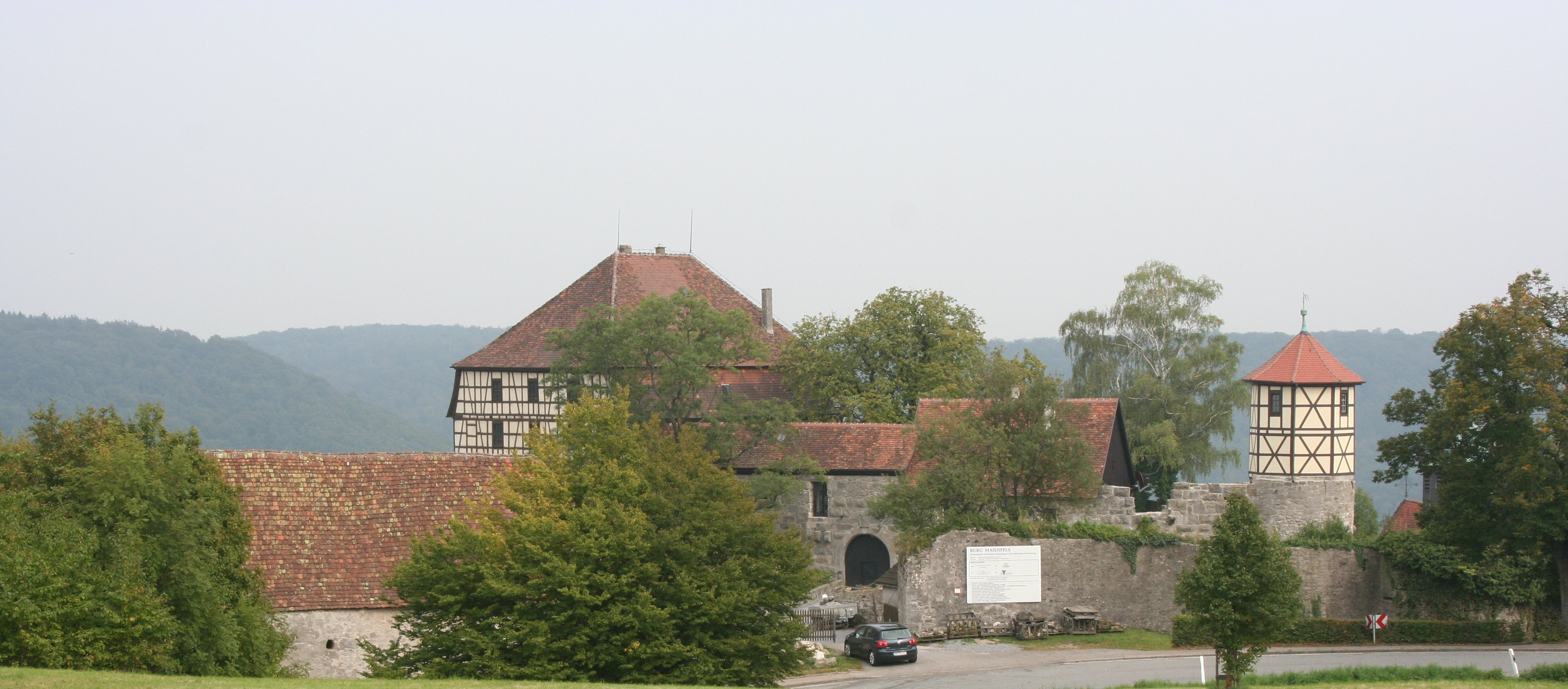 Maienfels castle in Wüstenrot-Maienfels, Germany